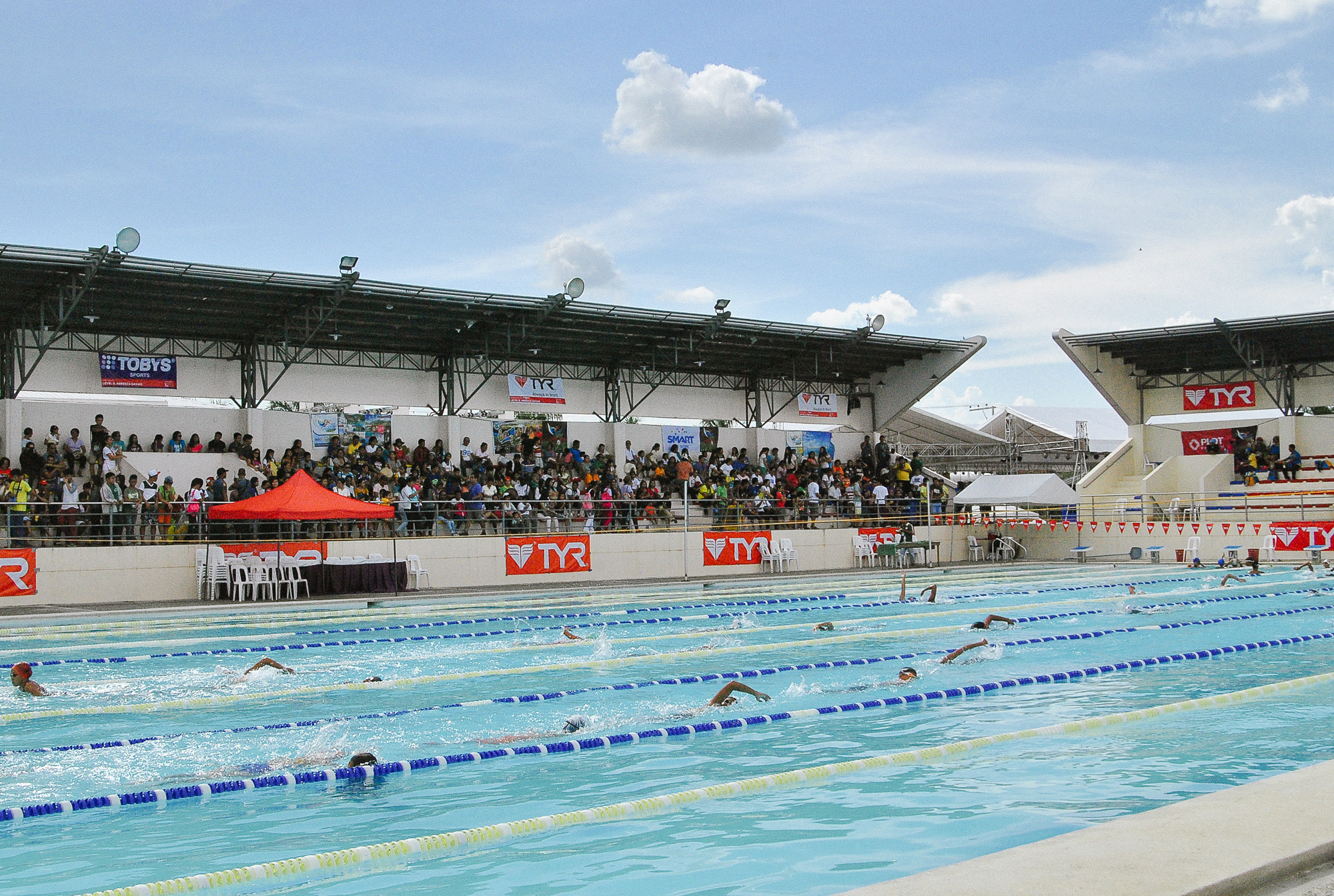 10-lane Olympic swimming pool and 500-seater grandstand of the Aquatic Center at the Davao del Norte Sports and Tourism Complex.